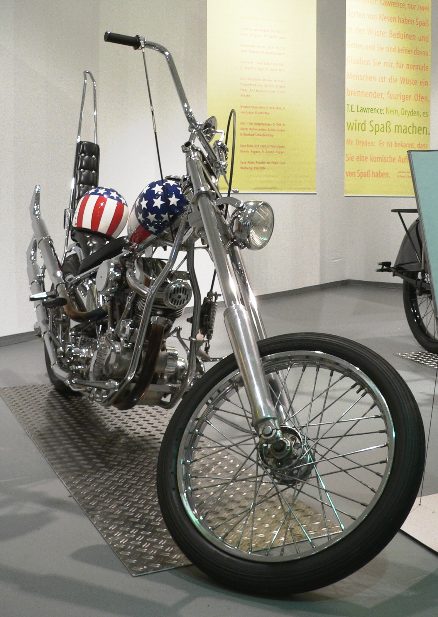 Captain America, Harley Davidson Chopper feautered in Easy Rider